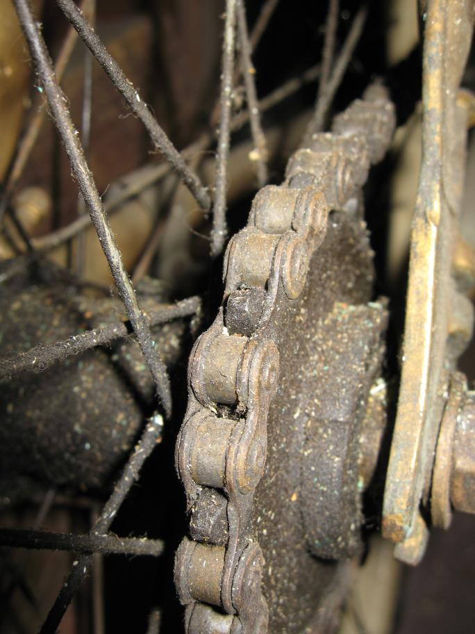 Photograph of a bicycle skip-link chain wrapped around a rear sprocket.